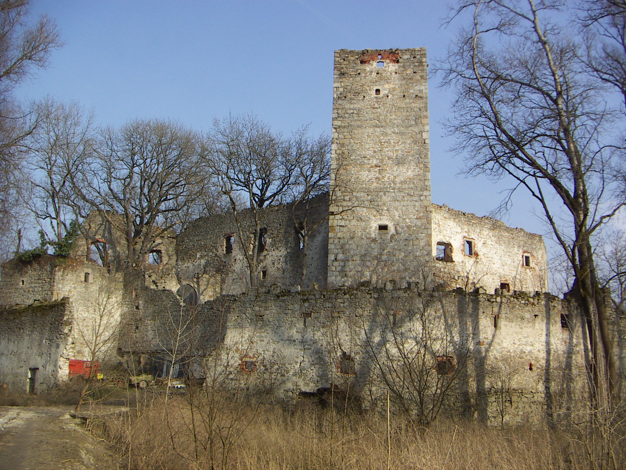 Ruins of former Spielberg Castle at Langenstein, Upper-Austria from the West